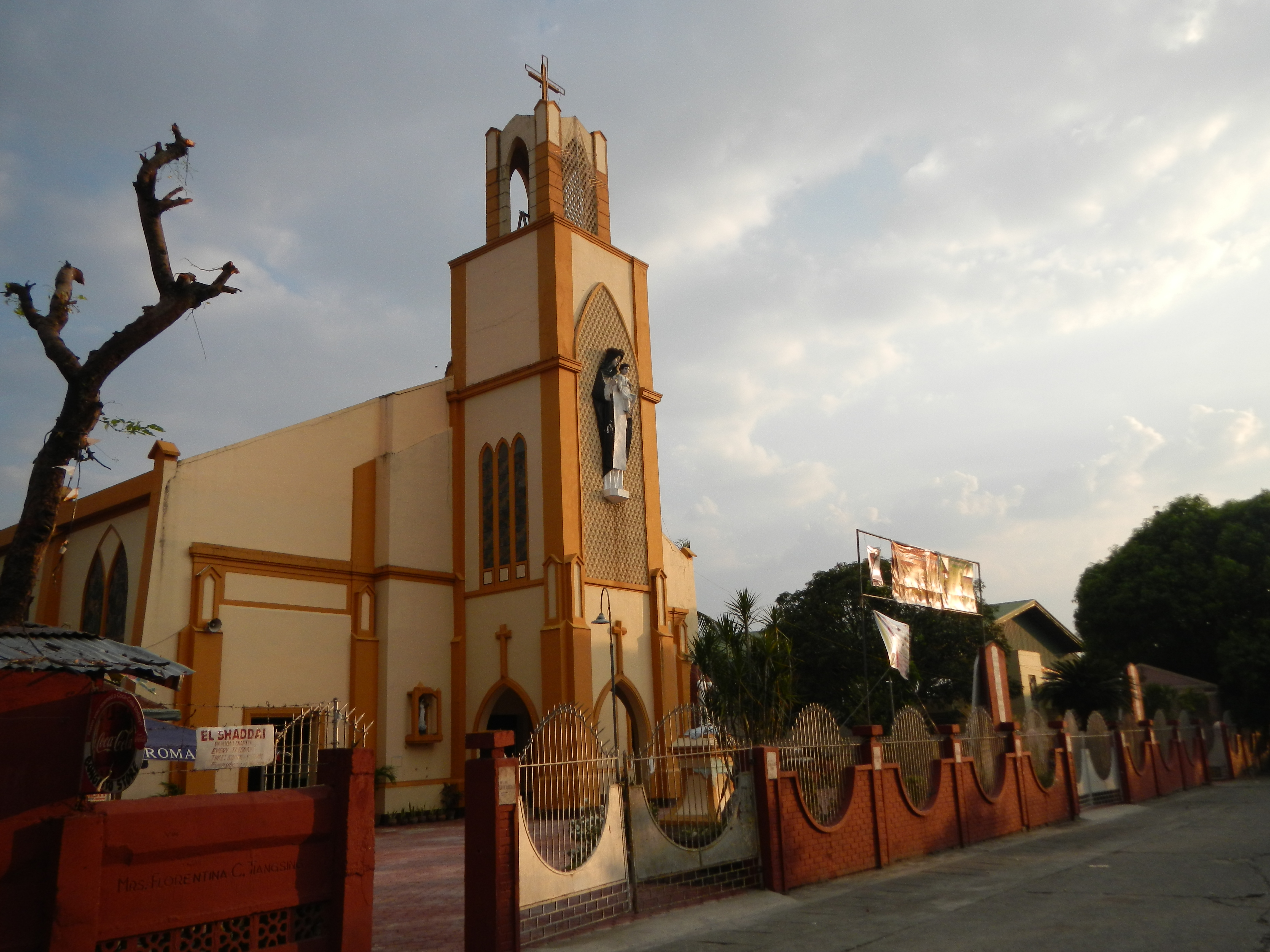 1804 Saint Rose of Lima Parish Church of Paniqui[1] [2] Vicariate of St. Rose of Lima Vicar Forane: Msgr. Alberto Bruno Saint Rose of Lima Parish (F-1804) Santa Rosa Street Paniqui 2307 Tarlac, Philippines Titular: St. Rose of Lima, August 23 Parish Priest: Msgr. Alberto Bruno Parochial Vicars: Father Ryean Tamayo Father Charles Corpuz[3]Roman Catholic Diocese of Tarlac [4][5]Most Rev. Florentino F. Cinense, D.D., PhD, STL Paniqui, Tarlac[6] is a first class municipality in the province of Tarlac, Philippines.[7][8][9][10]Rose of Lima, T.O.S.D., (April 20, 1586 – August 24, 1617) was the first person born in the Americas to be canonized by the Catholic Church. Coordinates: 16°0'25"N 120°11'45"E[11]